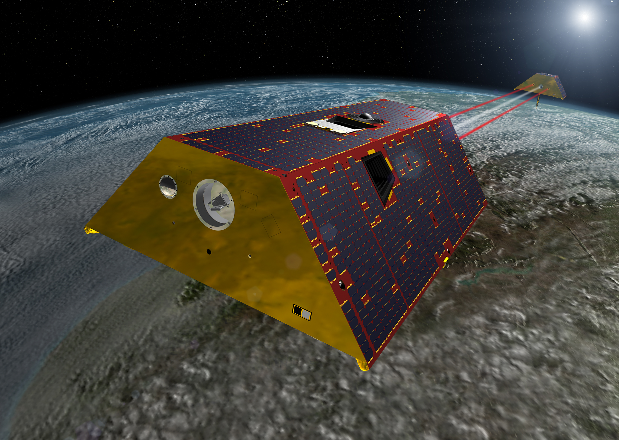 GRACE-FO